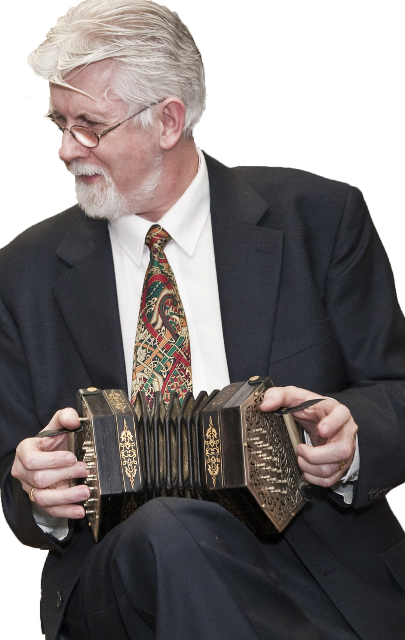 Irish historian and musician Professor Gearóid Ó hAllmhuráin